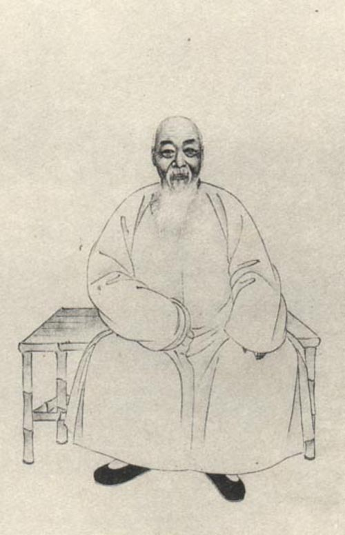 QIAN Xun, scholar of the late Qing Dynasty.